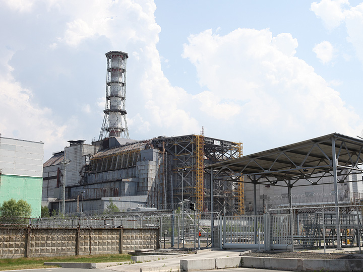 Sarcophagus over the exploded reactor. Radiation is rapidly increasing with every meter you go closer to the reactor..